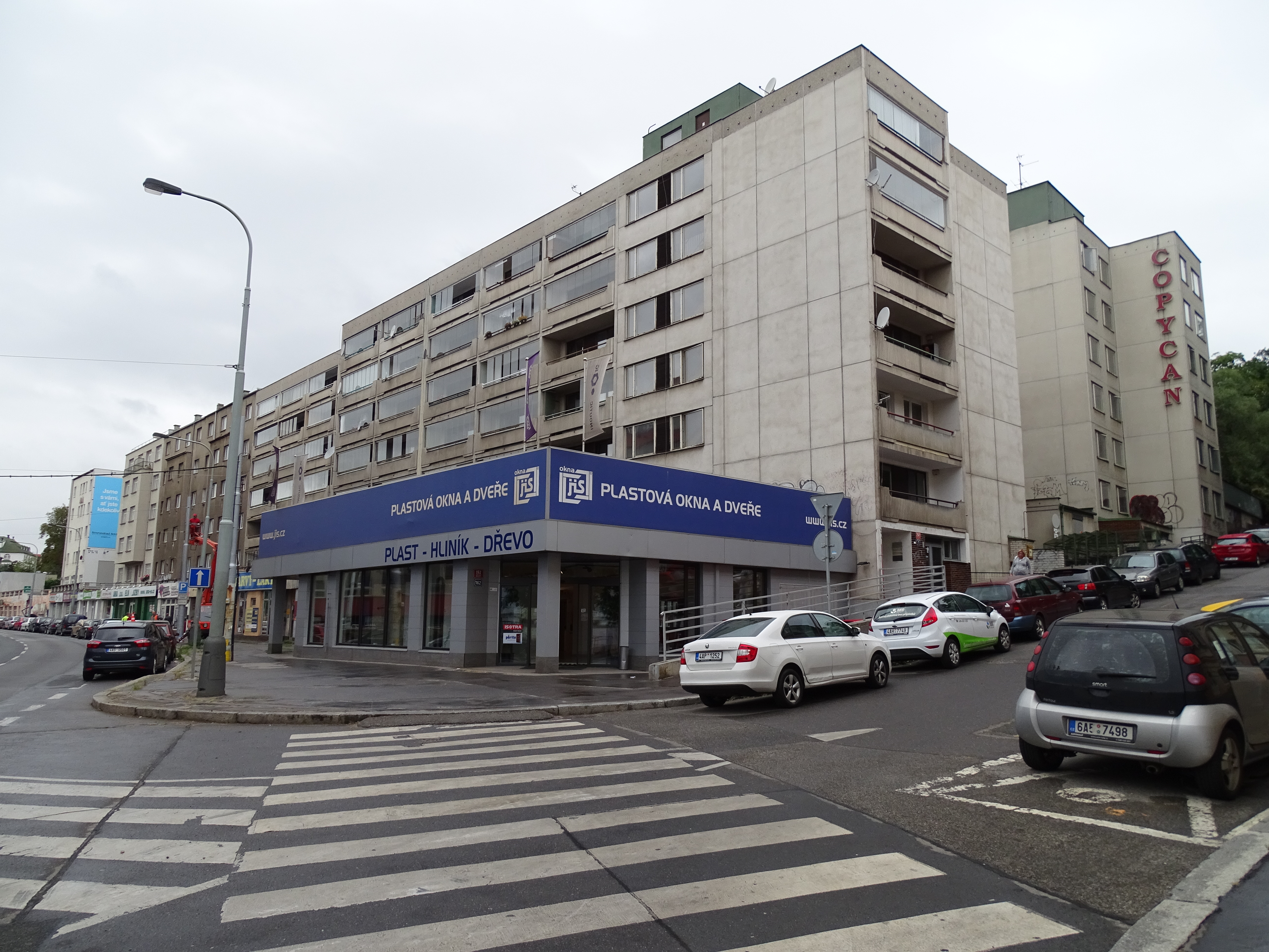 Prague-Smíchov, Czech Republic. Plzeňská 152/162, U Demartinky 152/1, Plzeňská 2561/164, U Demartinky 2561/1a, 1347/3